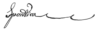 Signature of Gaspare Spontini from the first page of an autograph manuscript of the overture to his opera Olimpie